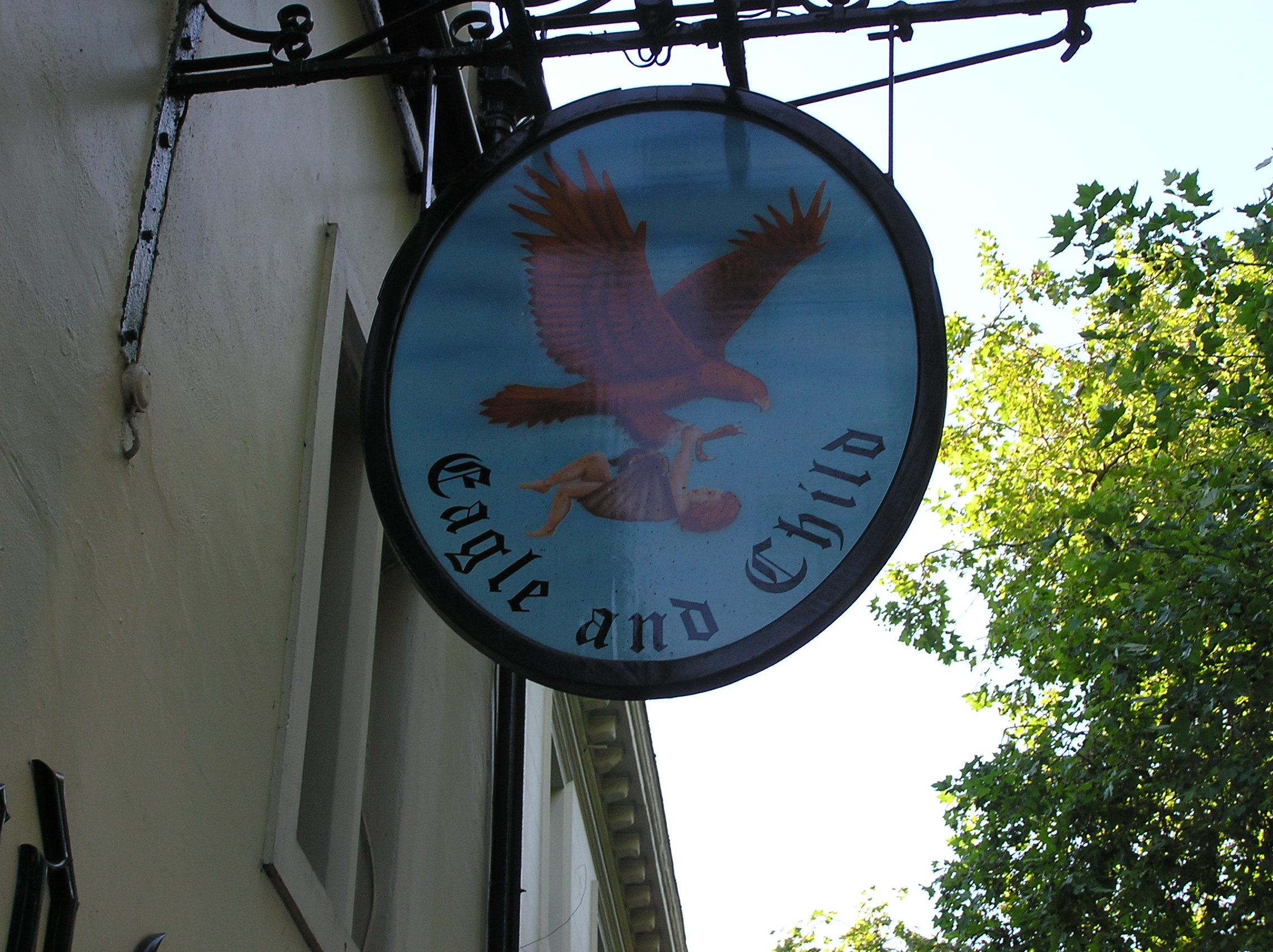 Picture of The Eagle and Child pub logo, in Oxford (England). Supposedly, J. R. R. Tolkien and C. S. Lewis met here.